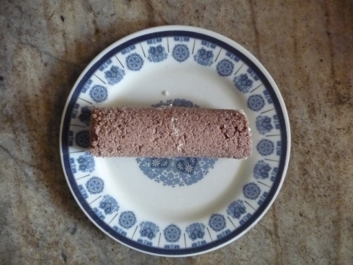 Pittu - A popular dish made in Kerala generally served as breakfast.